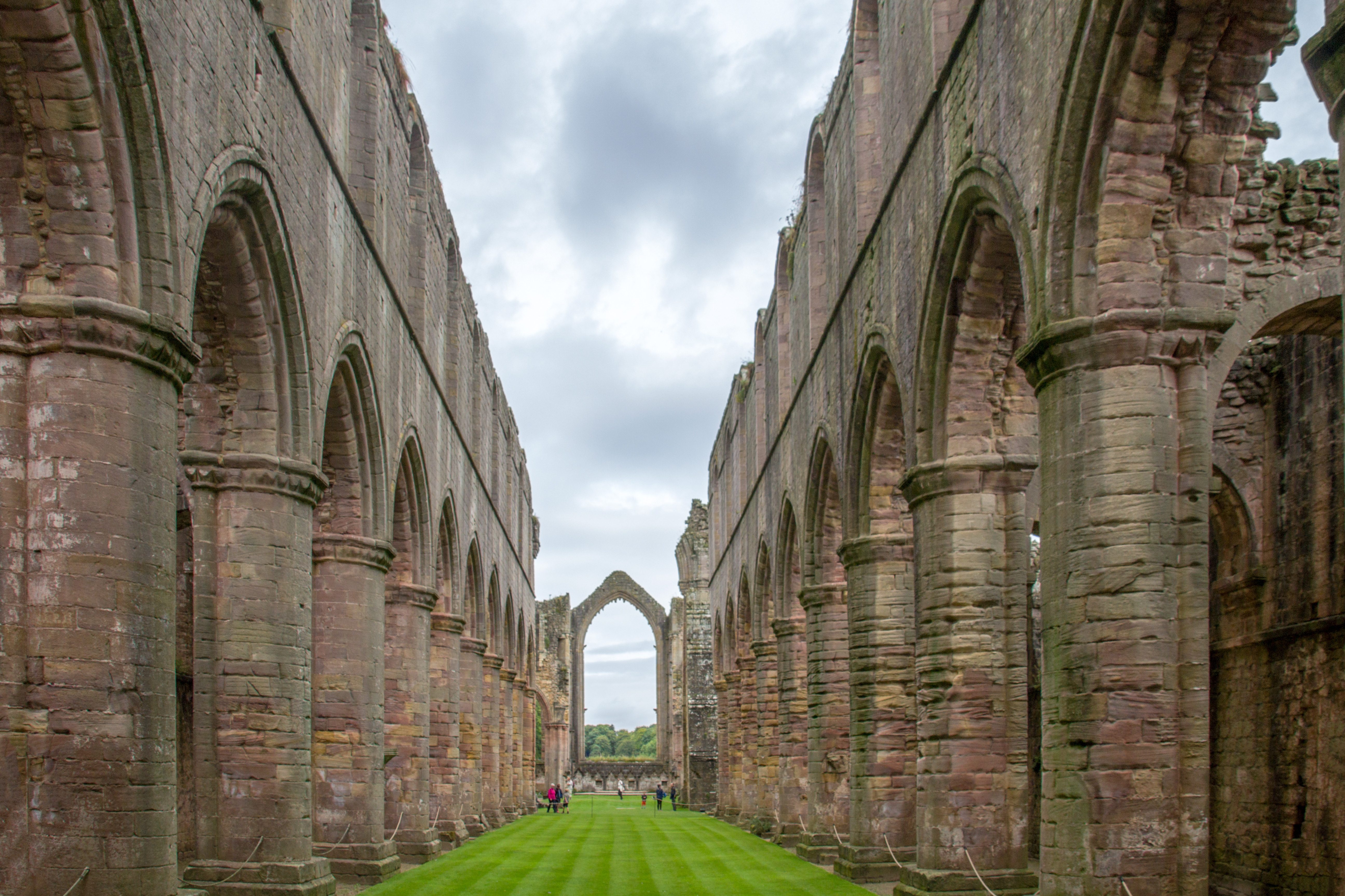 Fountains Abbey, Yorkshire, United Kingdom.